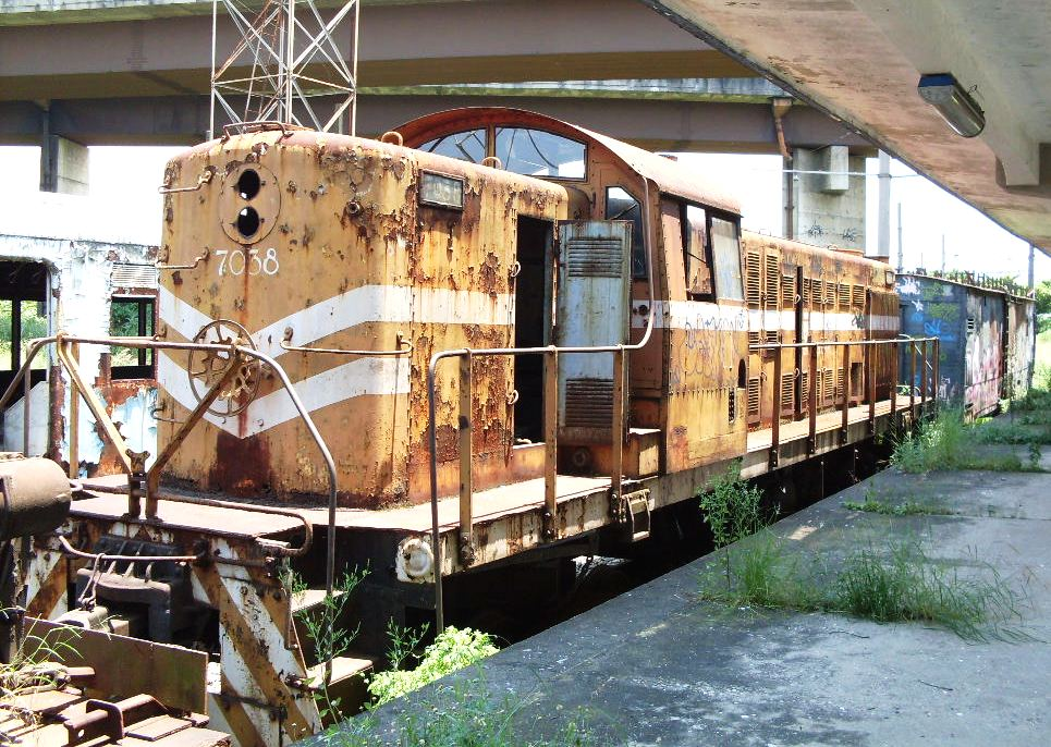 Diesel-Electric Locomotive ALCO RS1 # 7038 - originally belonged to EFCB (no. 3122), after RFFSA (no. 7038), currently CBTU (No. 7038).It is still preserved at the Barão Mauá Station - Rio de Janeiro-RJ-Brasil.